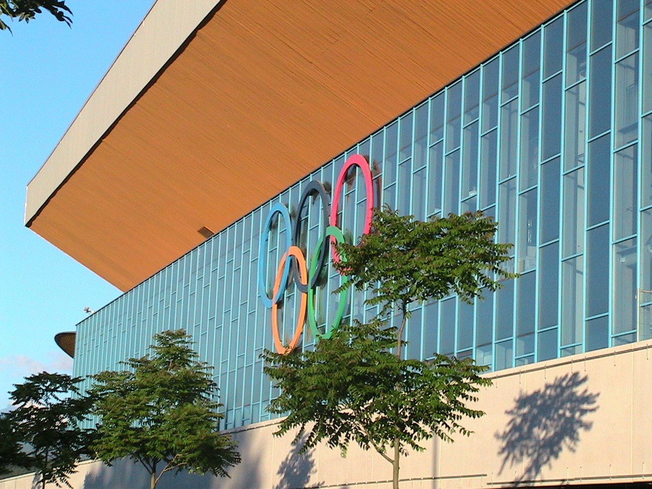 Innsbruck